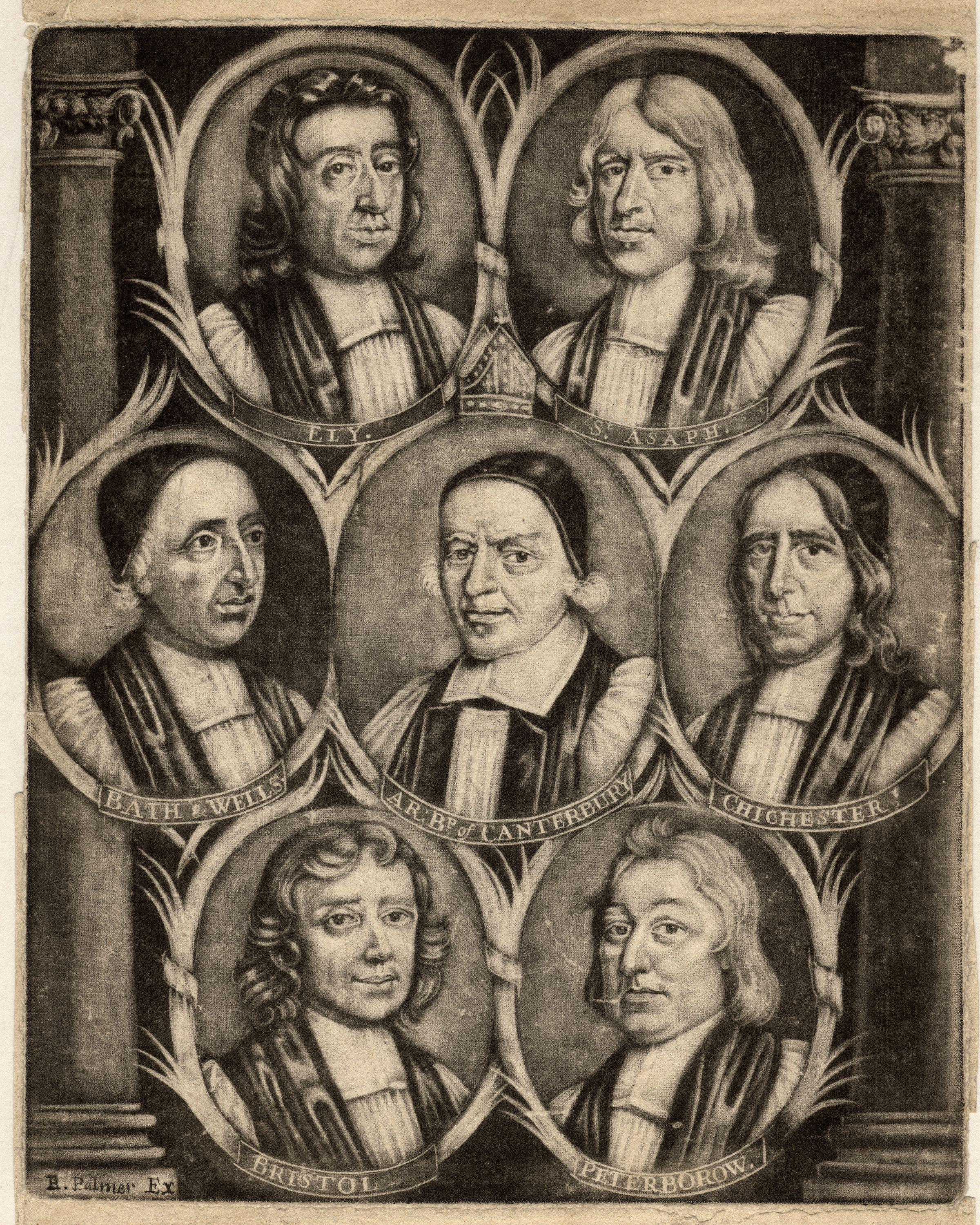 The Seven Bishops Committed to the Tower in 1688, by unknown artist. All images in this batch have an unknown author, but there is strong evidence it was first published before 1923 (based mainly on the NPG's estimated date of the work).